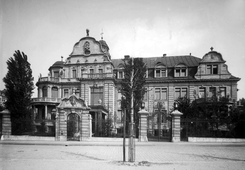 Leipzig, Kaiserin-Augusta-Strasse 19 (now Richard-Lehmann-Strasse) about 1920; the house built 1910/11 by Otto Paul Burghardt was two brothers Philipp, owners of the Fritz Schulz jun. AG.